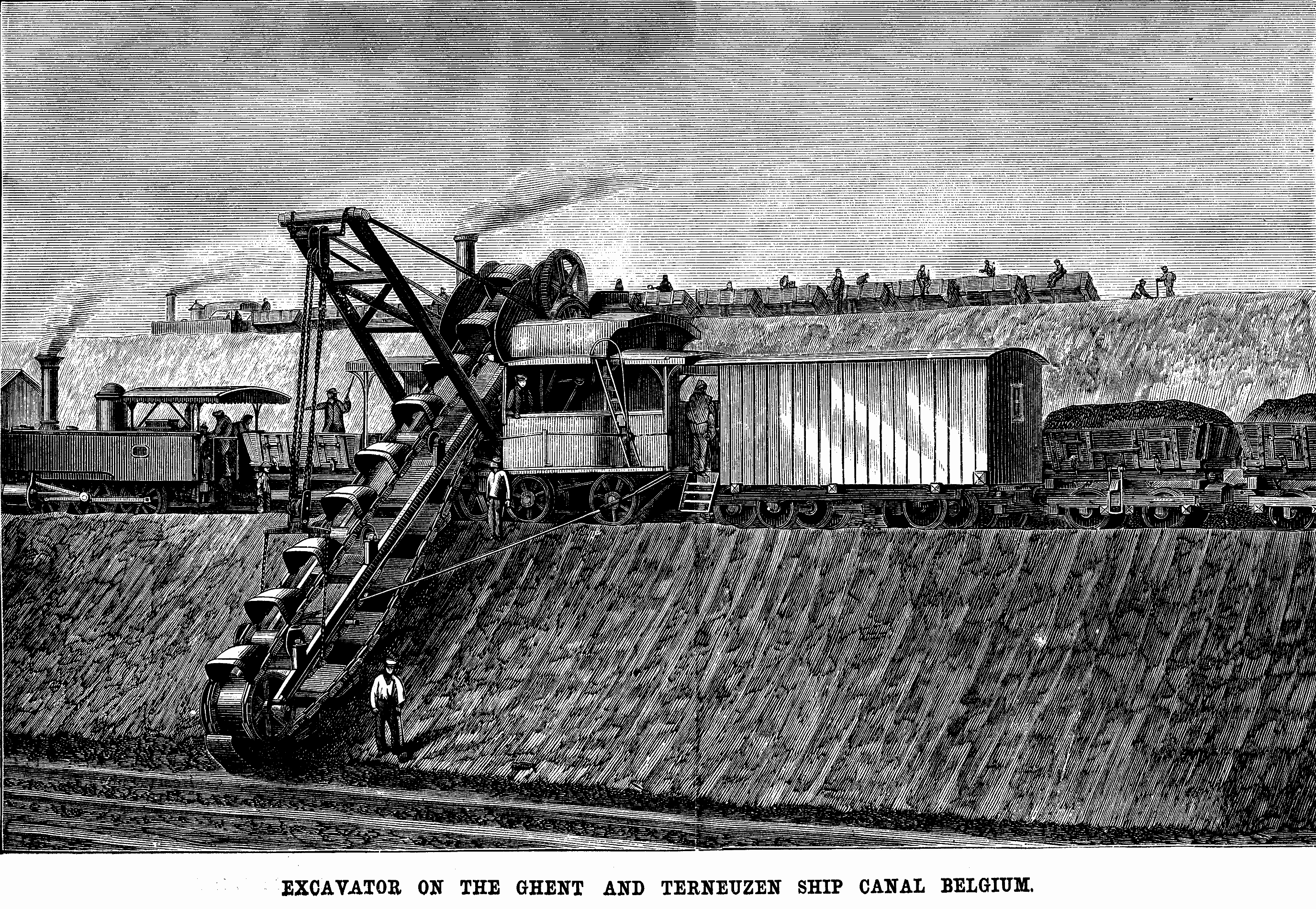 Excavating the Gent and Terneuzen canal.